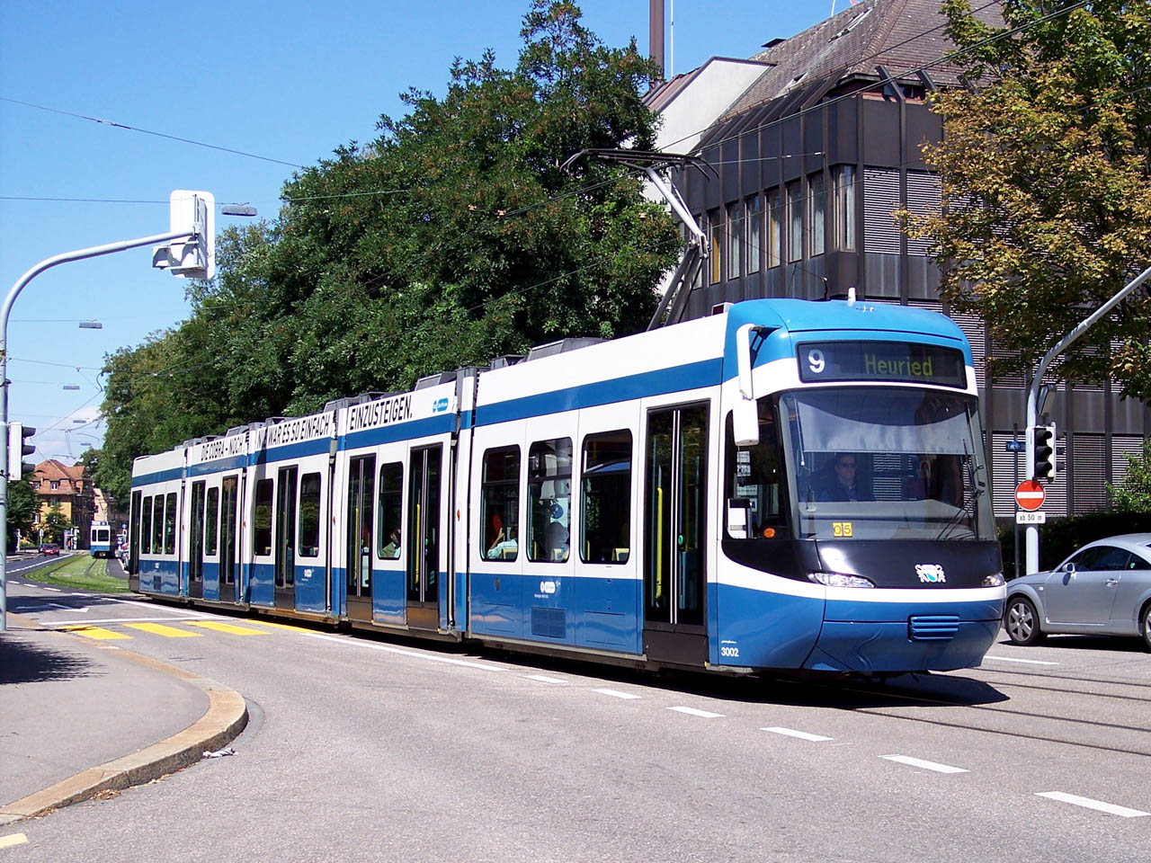 Trams in Zürich: A Be 5/6 "Cobra" low floor tram approaches Letzistrasse stop in Winterthurerstrasse on route 9.